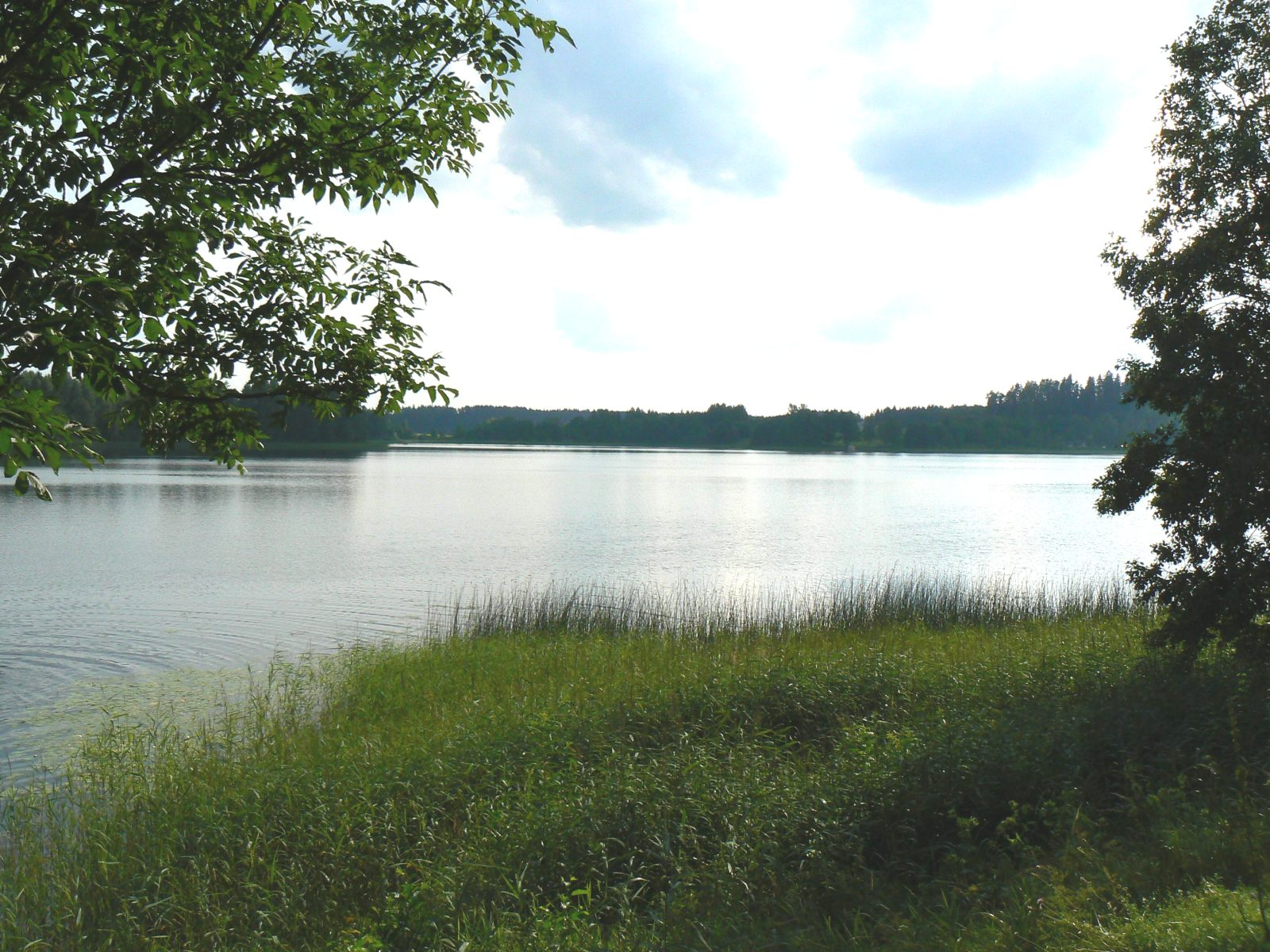 The lake Kooraste Suurjärv in Estonia